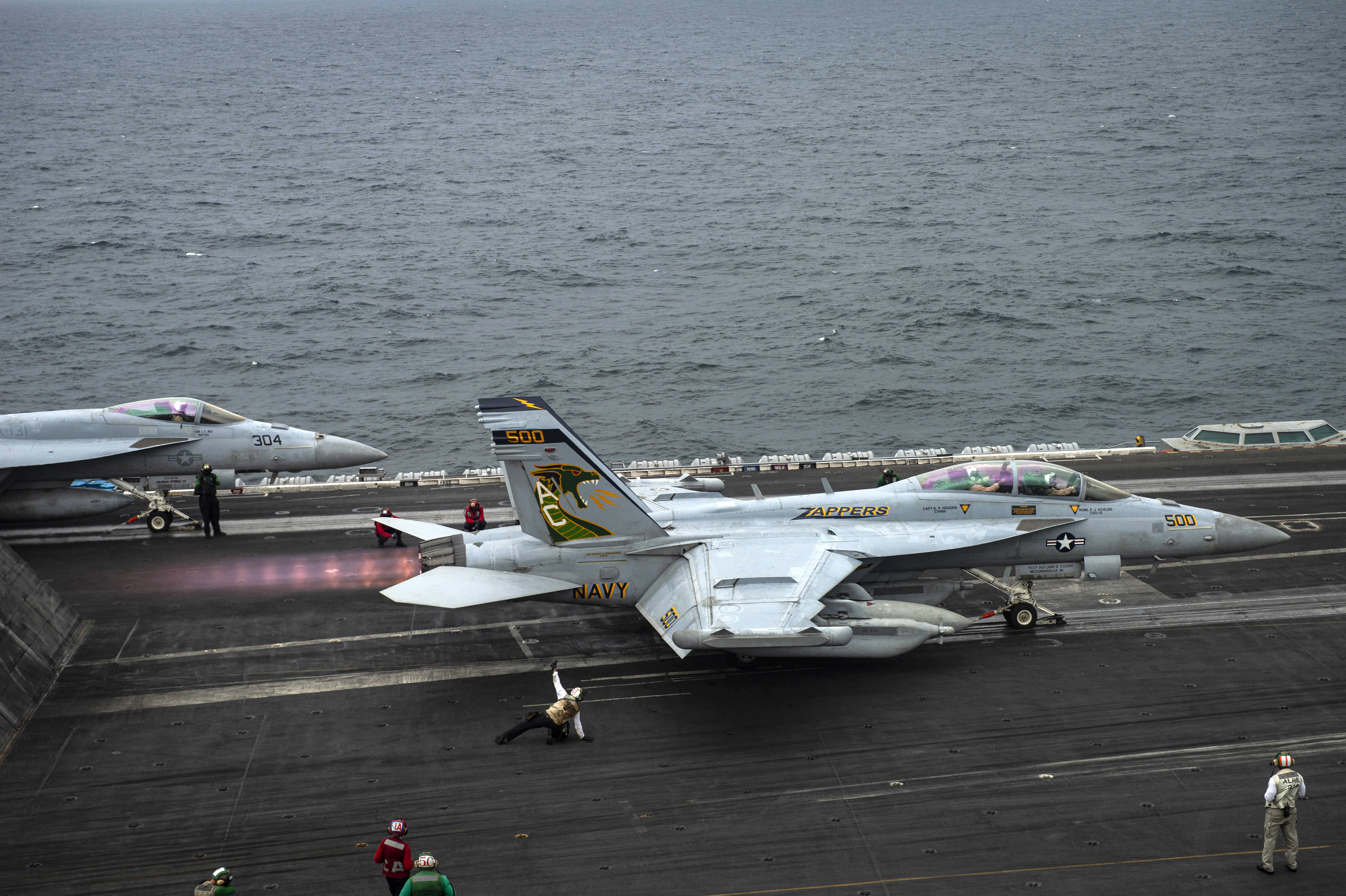 A U.S. Navy Boeing EA-18G Growler of Electronic Attack Squadron 130 (VAQ-130) "Zappers" launches from the the aircraft carrier USS Dwight D. Eisenhower (CVN-69) in the Arabian Sea on 23 March 2020. VAQ-130 was assigned to Carrier Air Wing 3 (CVW-3) aboard Dwight D. Eisenhower for a deployment to the Mediterranean Sea and the Indian Ocean, in 2020.